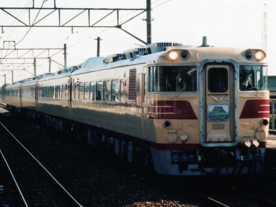 Central Japan Railway Company, DMU Type 82 Rapid service "Gotemba" at Kamioi Sta.